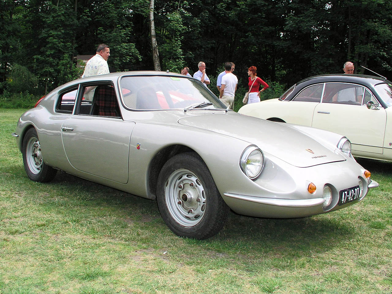 Coupé inspired by a 1959 Porsche Carrera Abarth and based on a VW Beetle chassis, made in Belgium by Application Polyester Armé de Liége; right front-side view